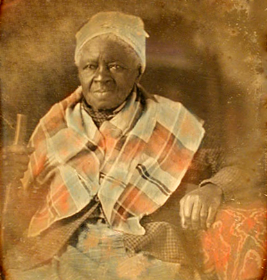 "Portrait of Mauma Mollie," around 1850.